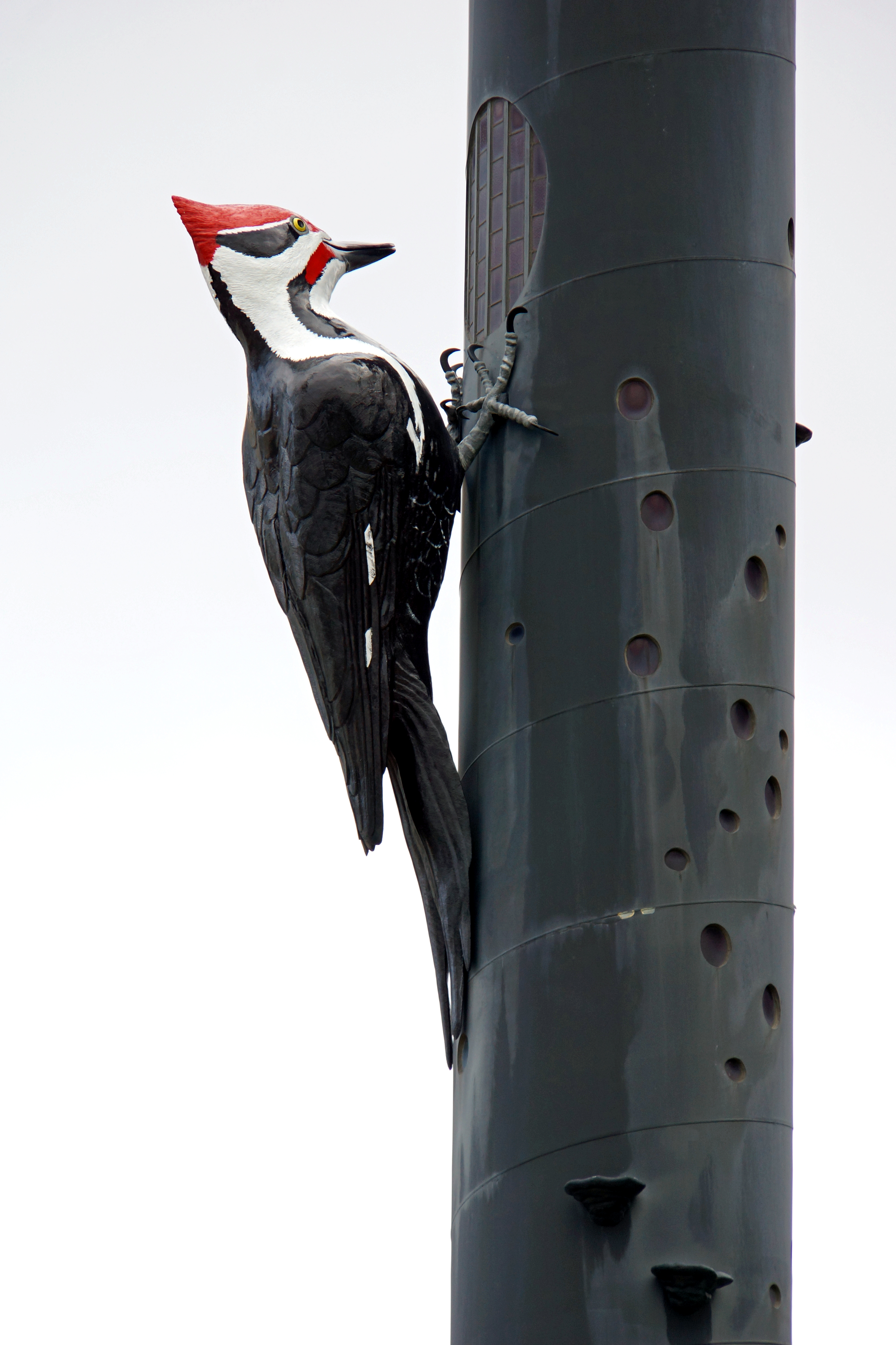 PLEASE, NO invitations or self promotions, THEY WILL BE DELETED. My photos are FREE to use, just give me credit and it would be nice if you let me know, thanks. A large sculptured Pileated Woodpecker. Near the south entrance to the Metro Toronto Convention Centre is the Woodpecker Column by artists Dai Skuse and Kim Kozzi working collaboratively under the name Fastwürms. This 30-metre tall column rises from the concrete in unexpectedly stark but delightful contrast to the geometric regularity of the building, appearing to be pecked by a pileated woodpecker. References to nature frequently occur in the art of Fastwürms and in this case it is specific to the site’s history as a swamp where waterlogged and decaying trees would have attracted indigenous woodpeckers.""